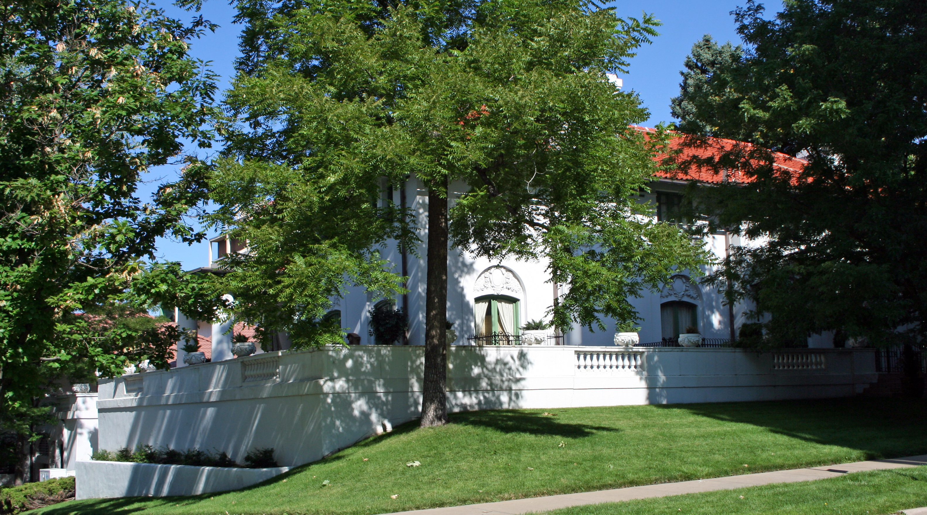 The Wood-Morris-Bonfils House, located at 707 Washington Street in Denver, Colorado